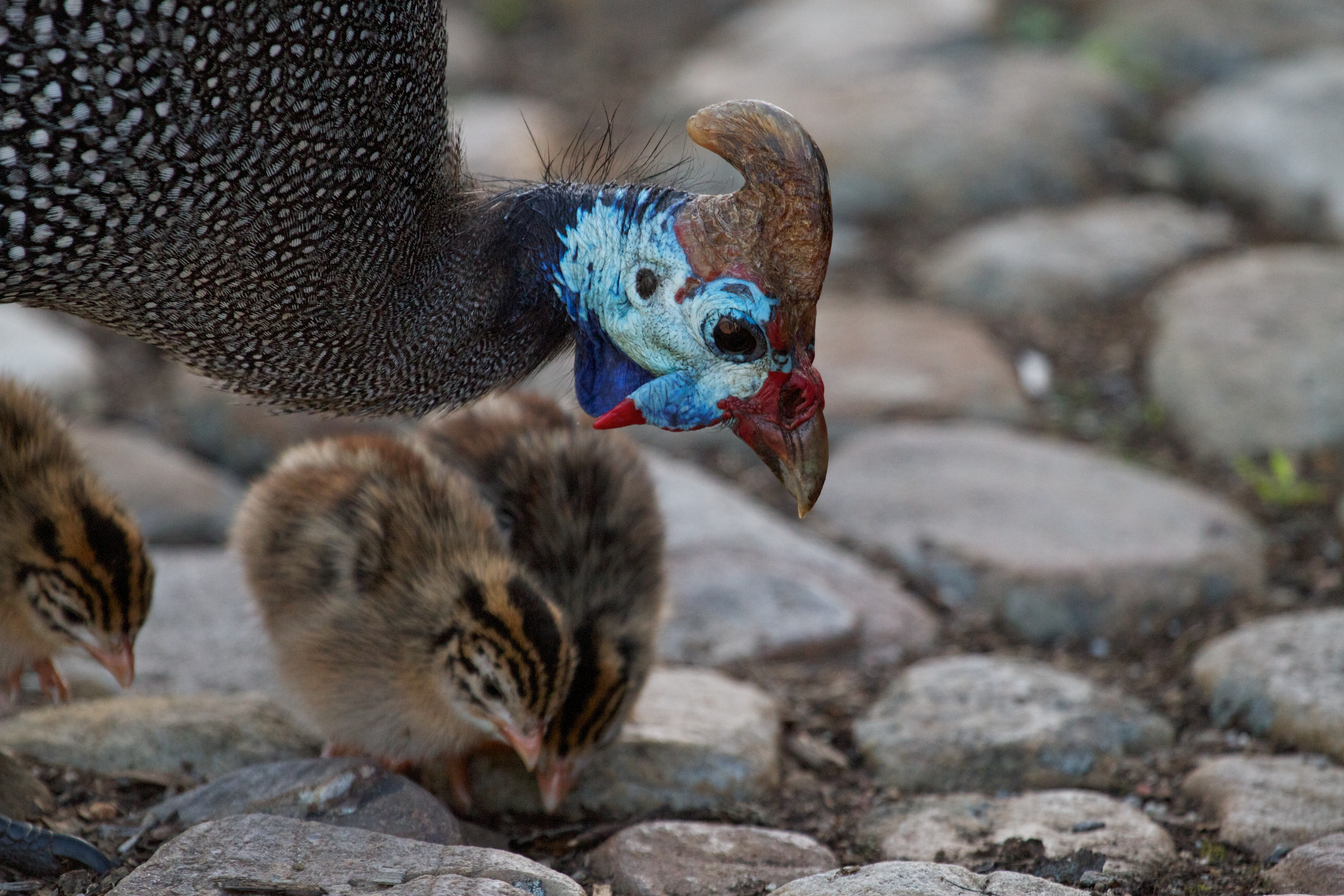 An adult Helmeted guineafowl with chicks in Cape Town, South Africa